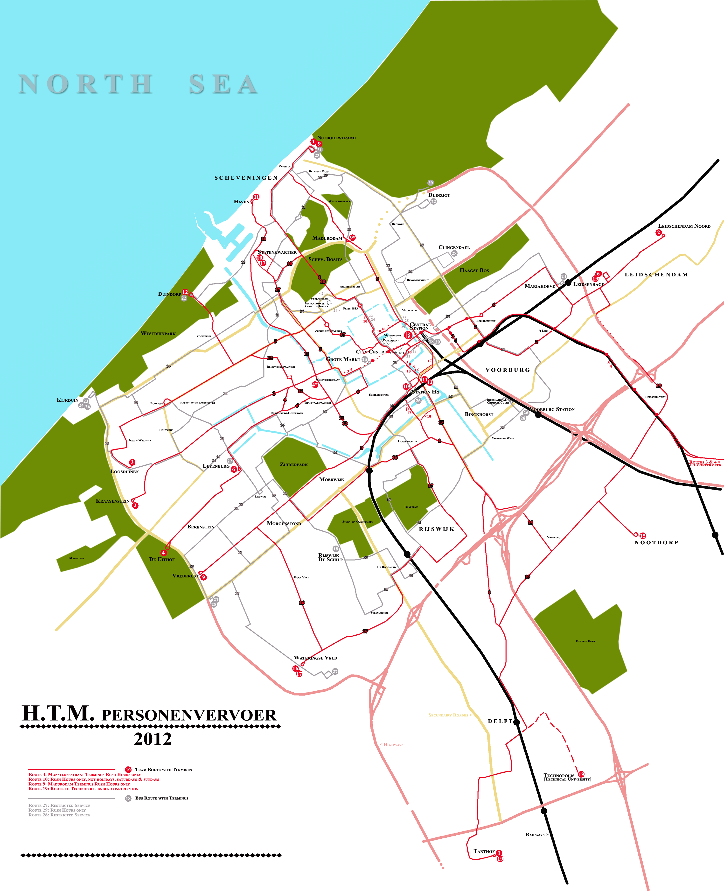 Map of Tram and Bus routes by HTM Personenvervoer, 2012